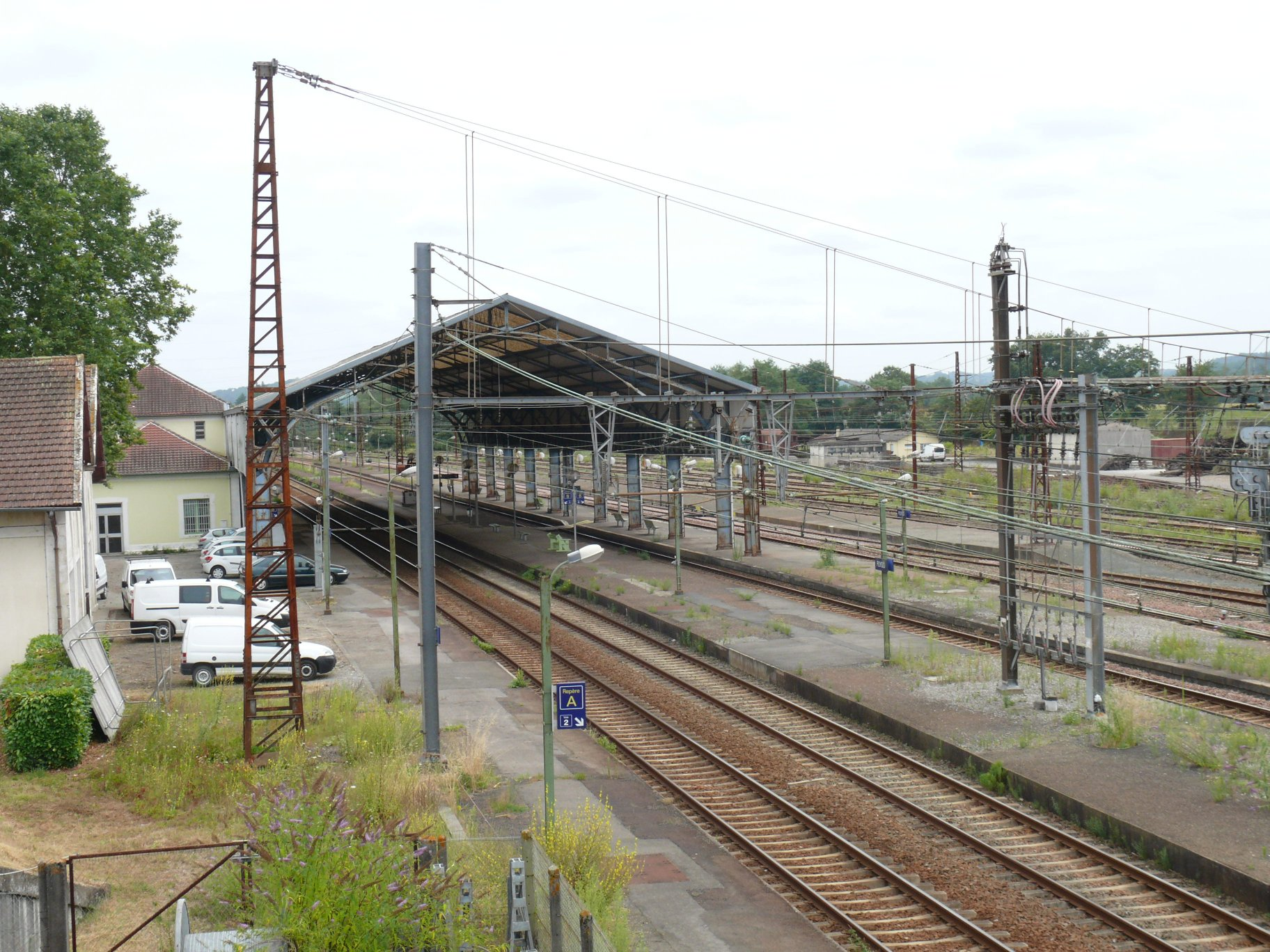 Puyoô train station (Pyrénées-Atlantiques, Aquitaine, France).